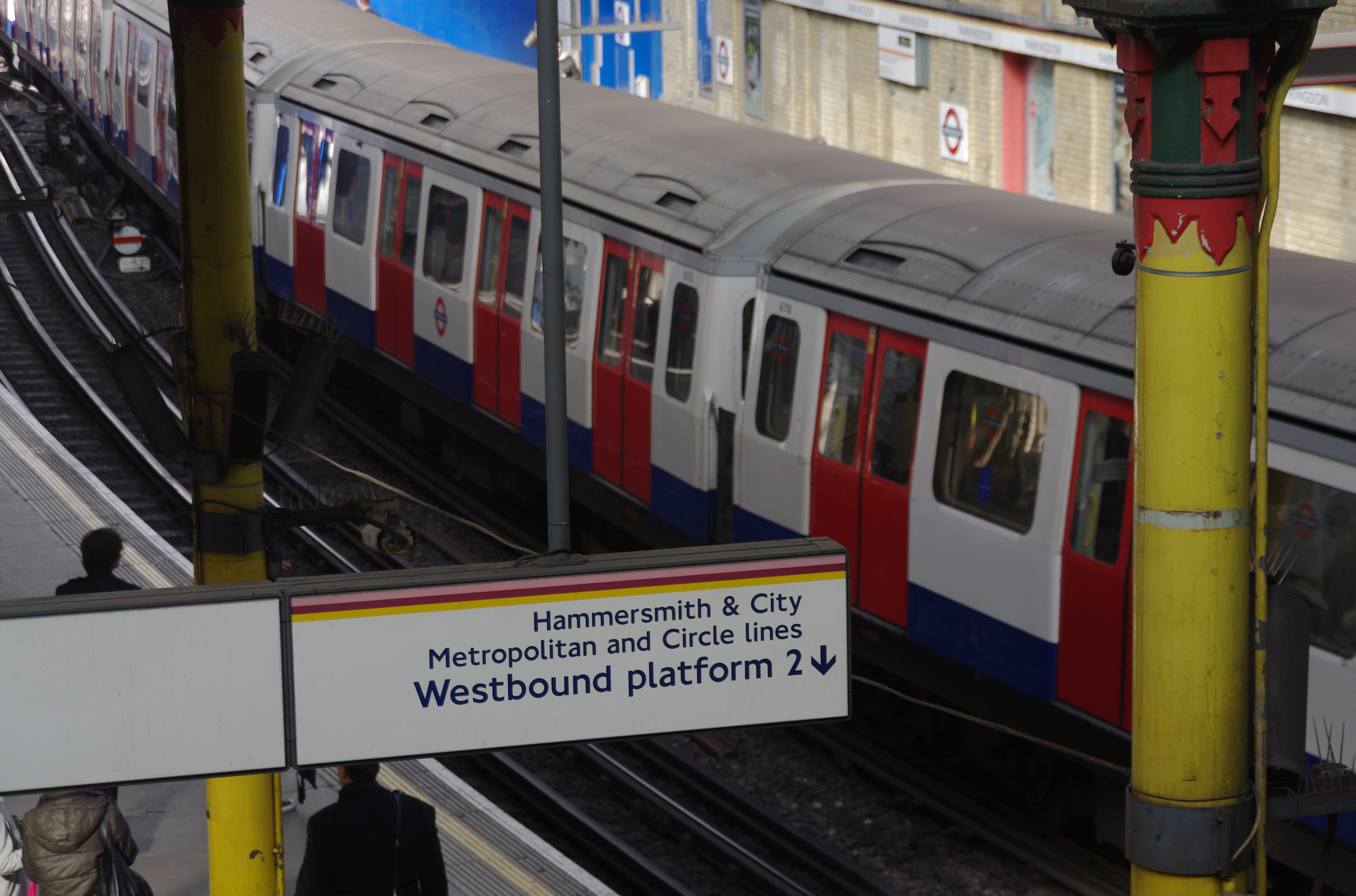 A westbound London Underground EMU stands at Farringdon.